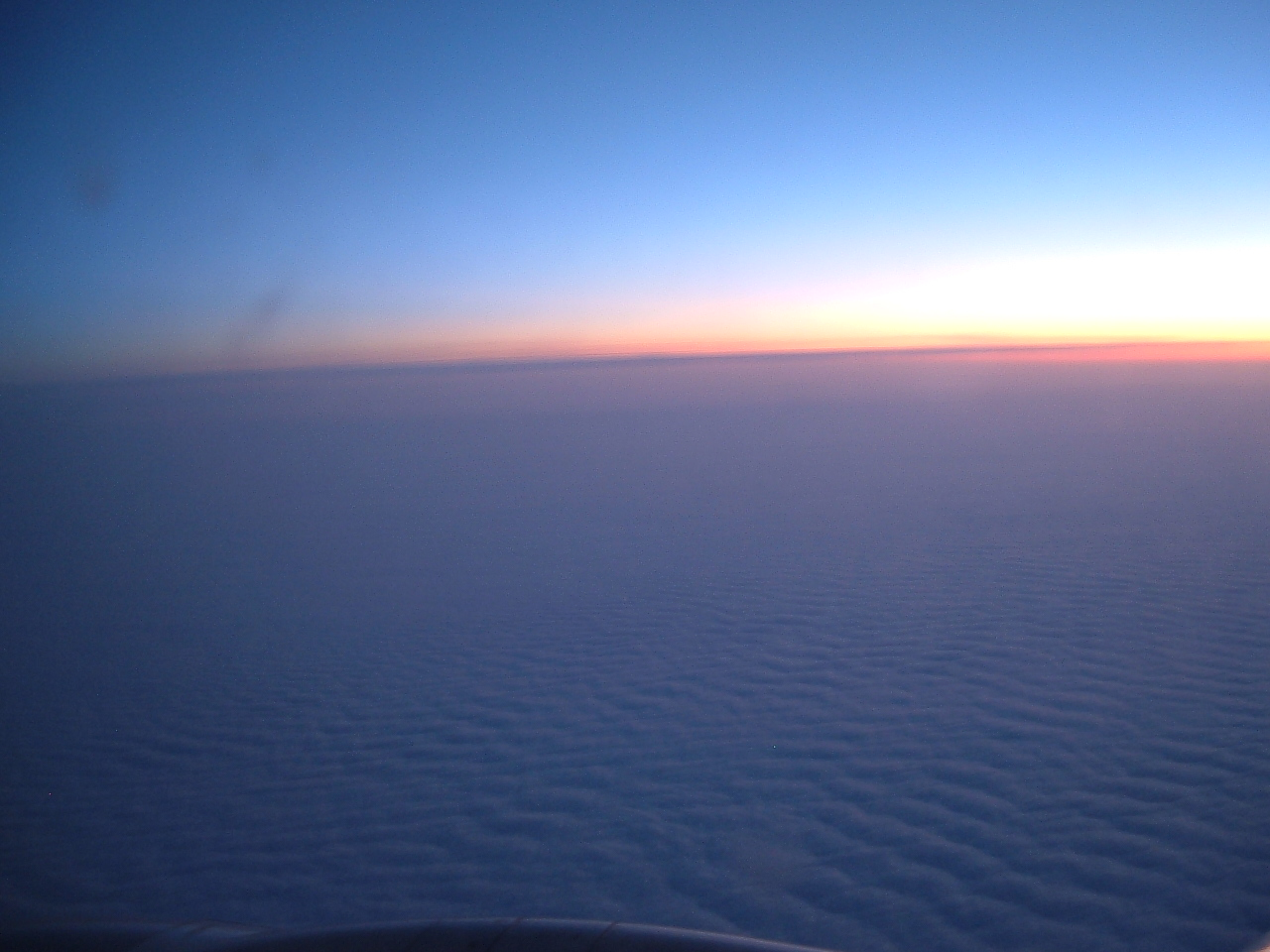 Aerial picture of Kazakhstan.